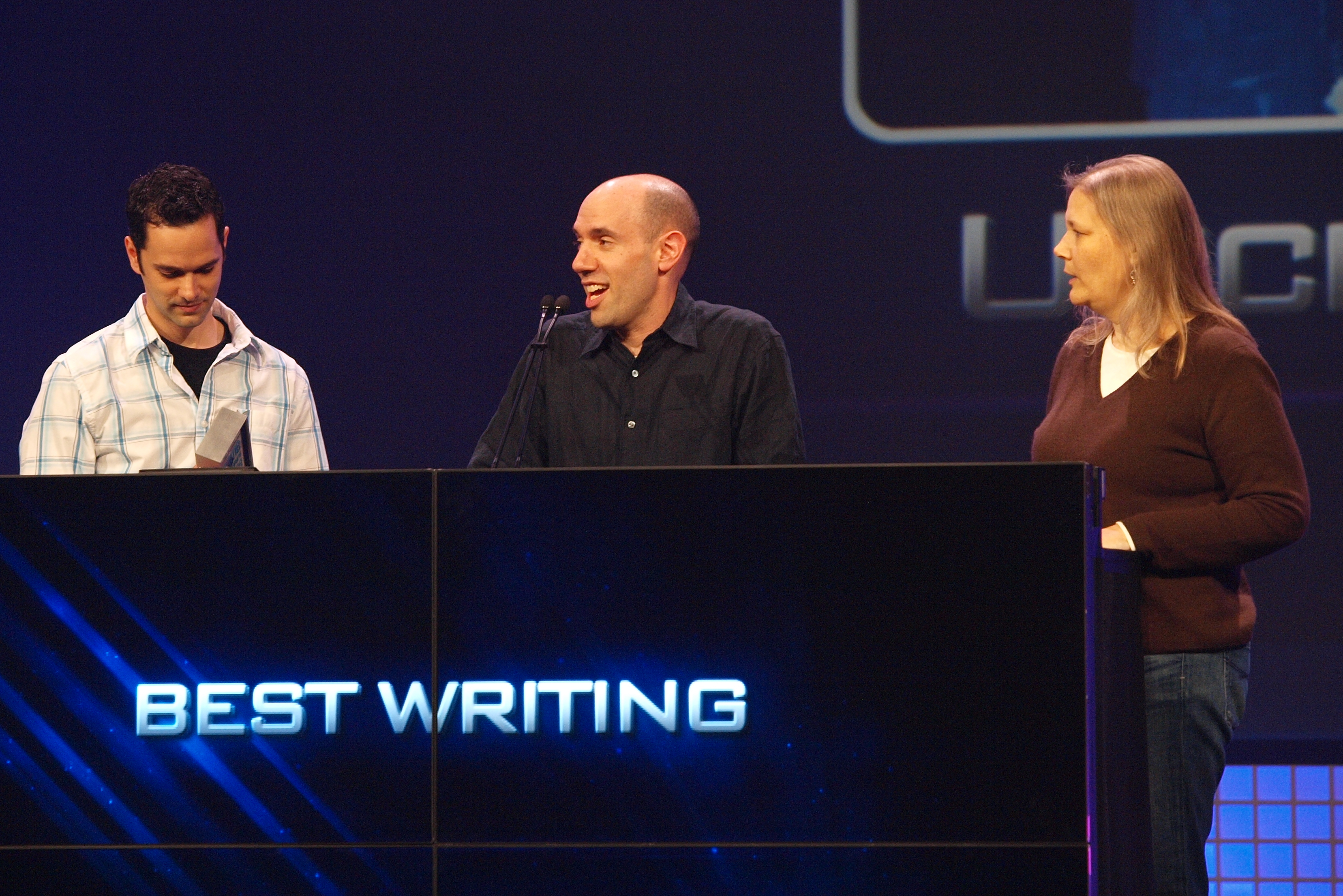 Uncharted 2. Left to right: Neil Druckmann, Josh Scherr, Amy Hennig.